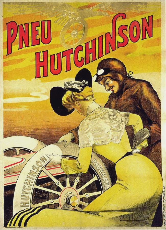 Advertising poster for Hutchinson tyres.